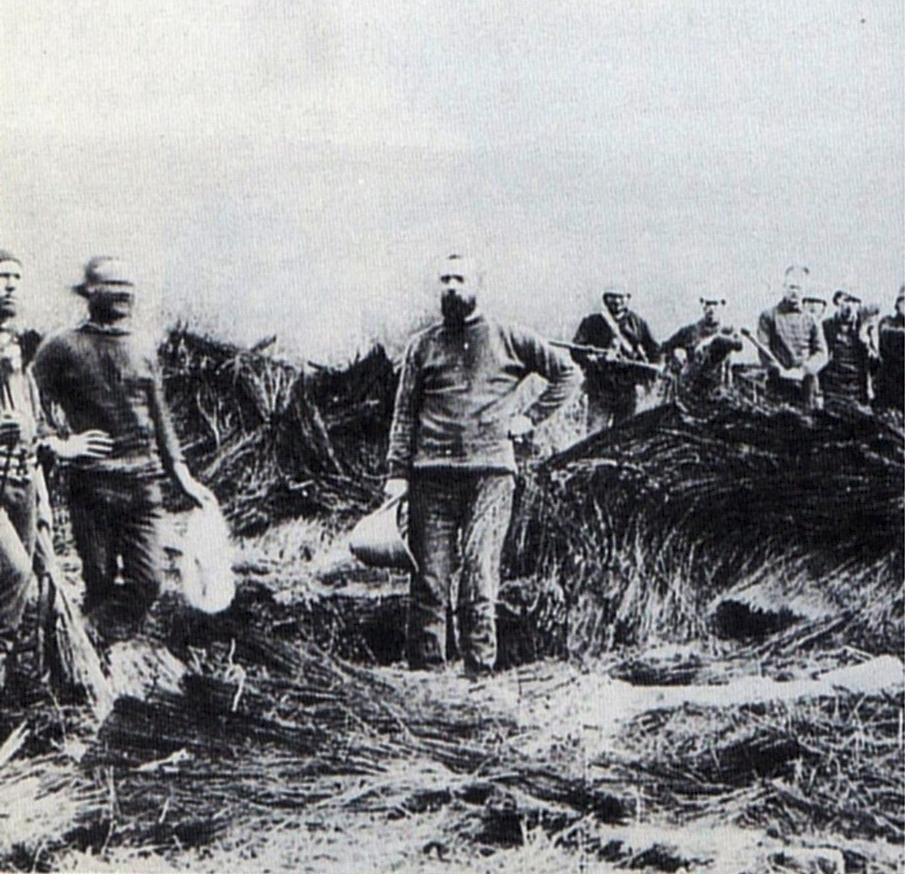 The British survivors of the battle of Rorke's Drift, 22 January 1879.